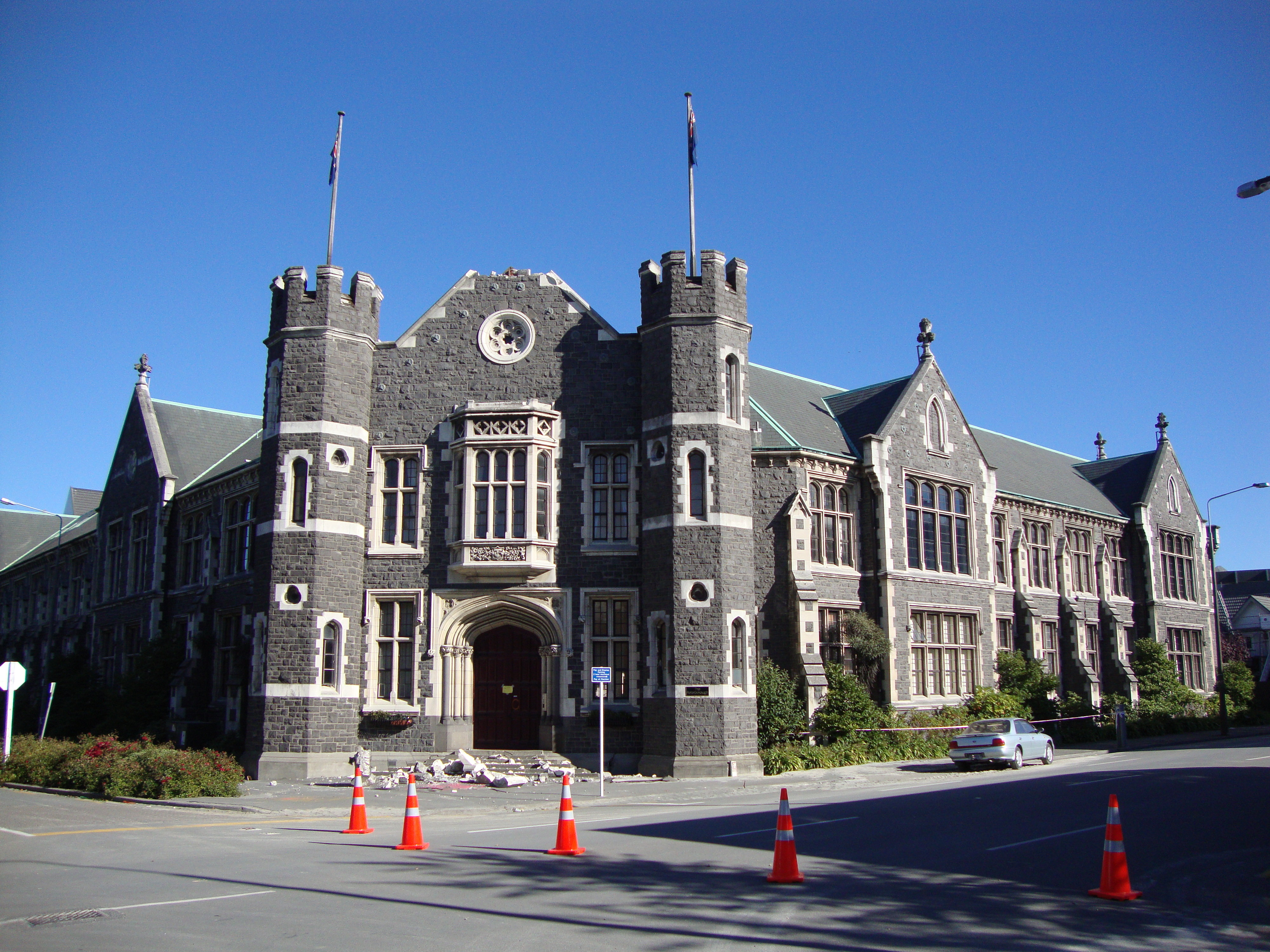 The Peterborough Centre on 5 March 2011 showing slight earthquake damage.